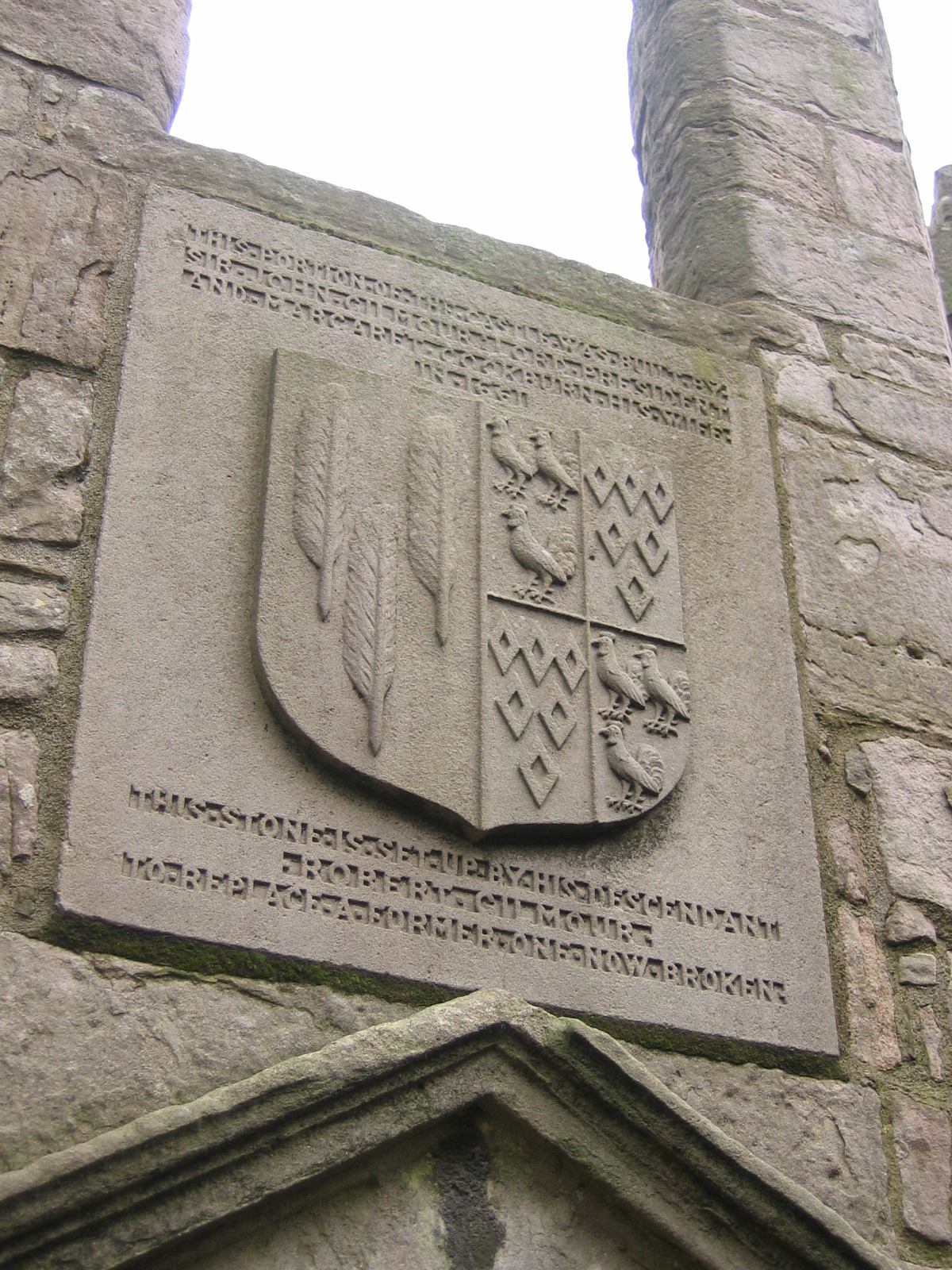 Arms of Gilmour impaled with those of Cockburn, Craigmillar Castle, Edinburgh, Scotland. Plaque detailing history of the west range.